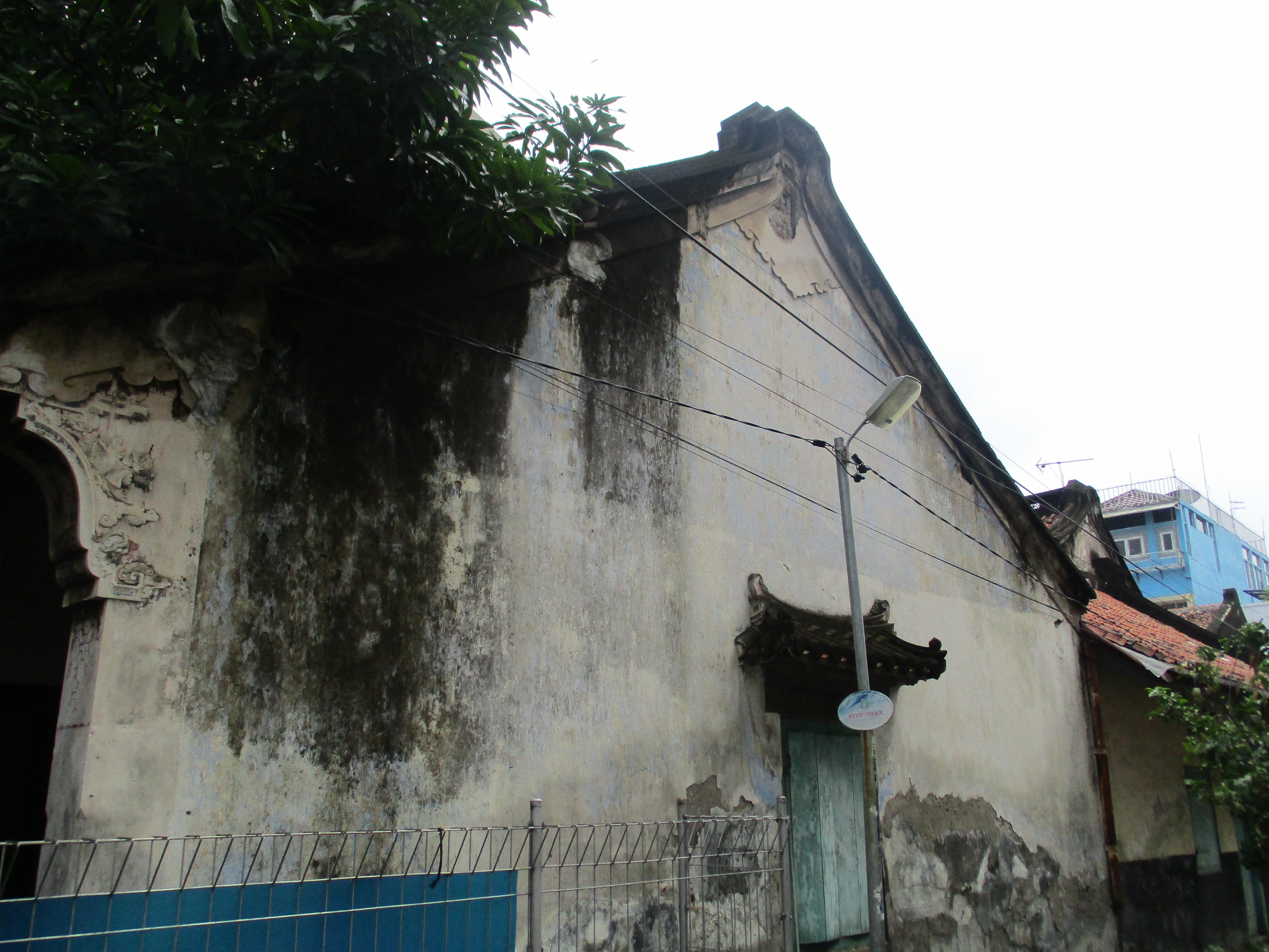 Chinese architecture of Tangerang, (Pasar Lama area)